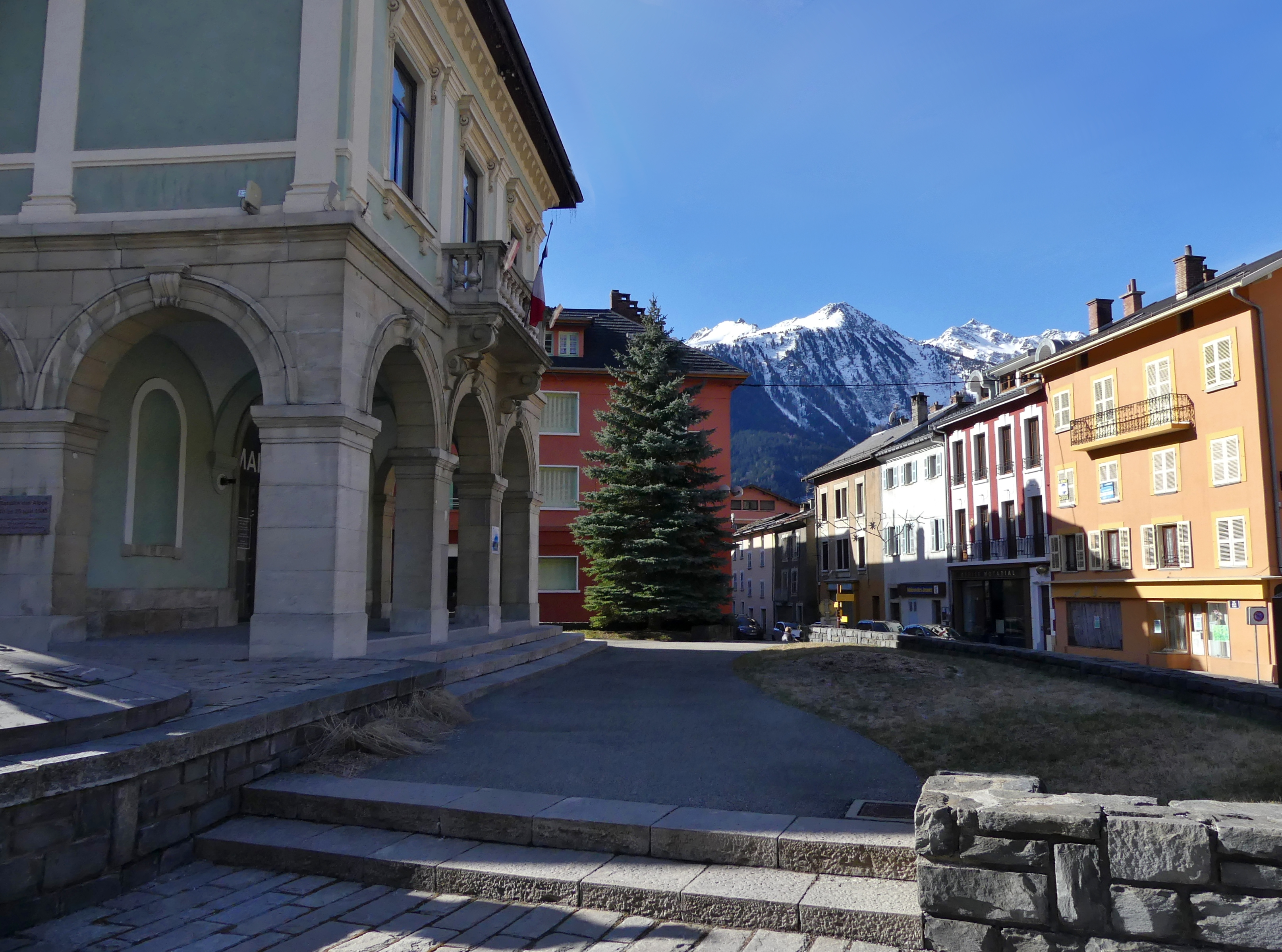 Sight, in a winter morning, of Modane town hall in the Maurienne valley, Savoie, France.